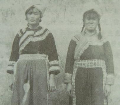 Ethnic Yi